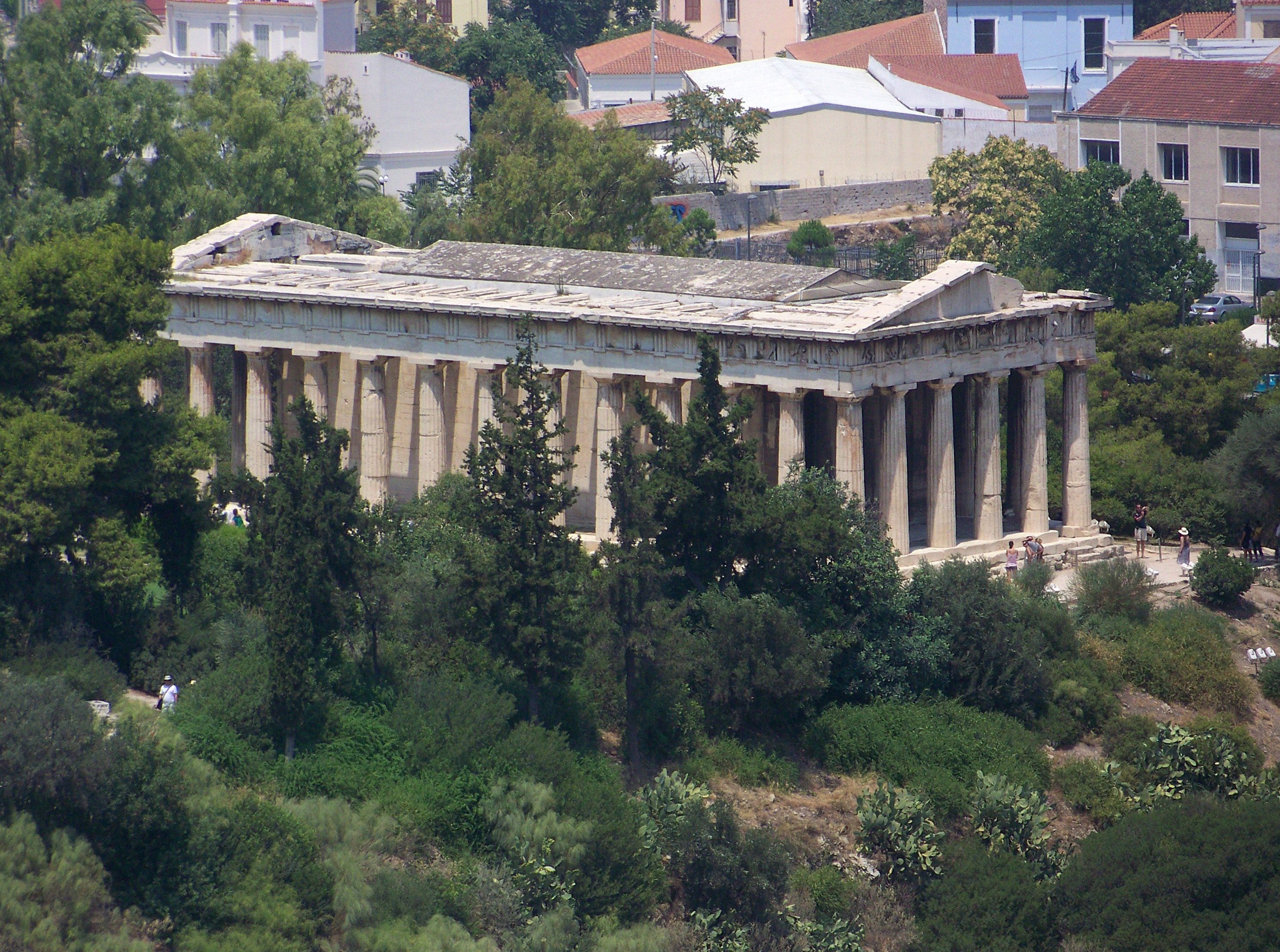 Hephaisteion of Athens, Greece.